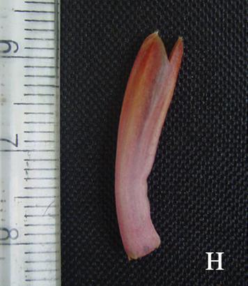 Amomum nilgiricum, calyx